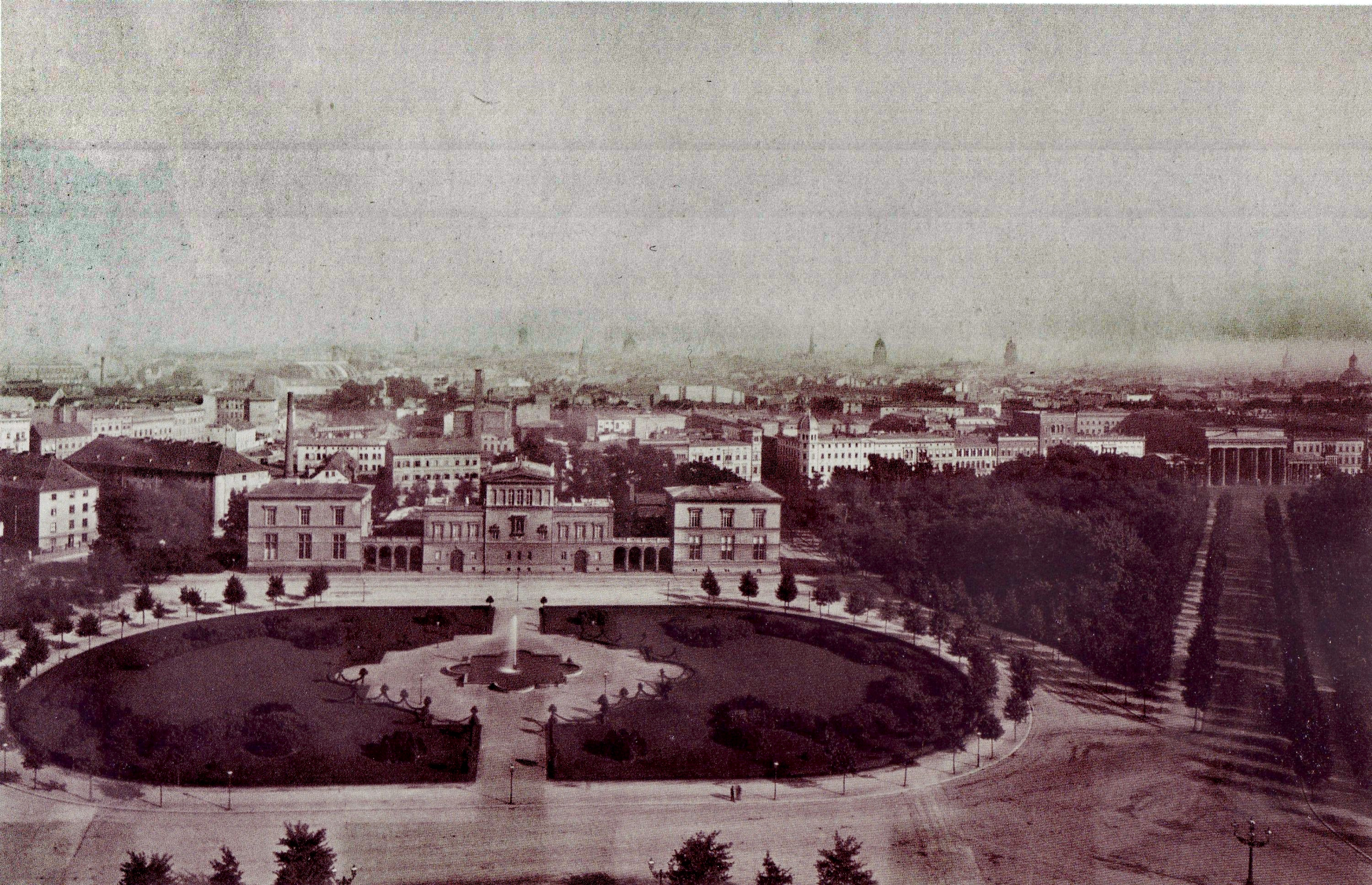 Königsplatz in Berlin with Palais Raczynski (later demolished for the construction of the Reichstag building), Brandenburg Gate on the right; this photo of the Eastern half of the square was taken around 1880 from Siegessäule